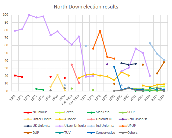 North Down election results